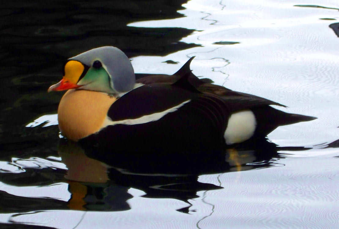 King Eider (Somateria spectabilis) male